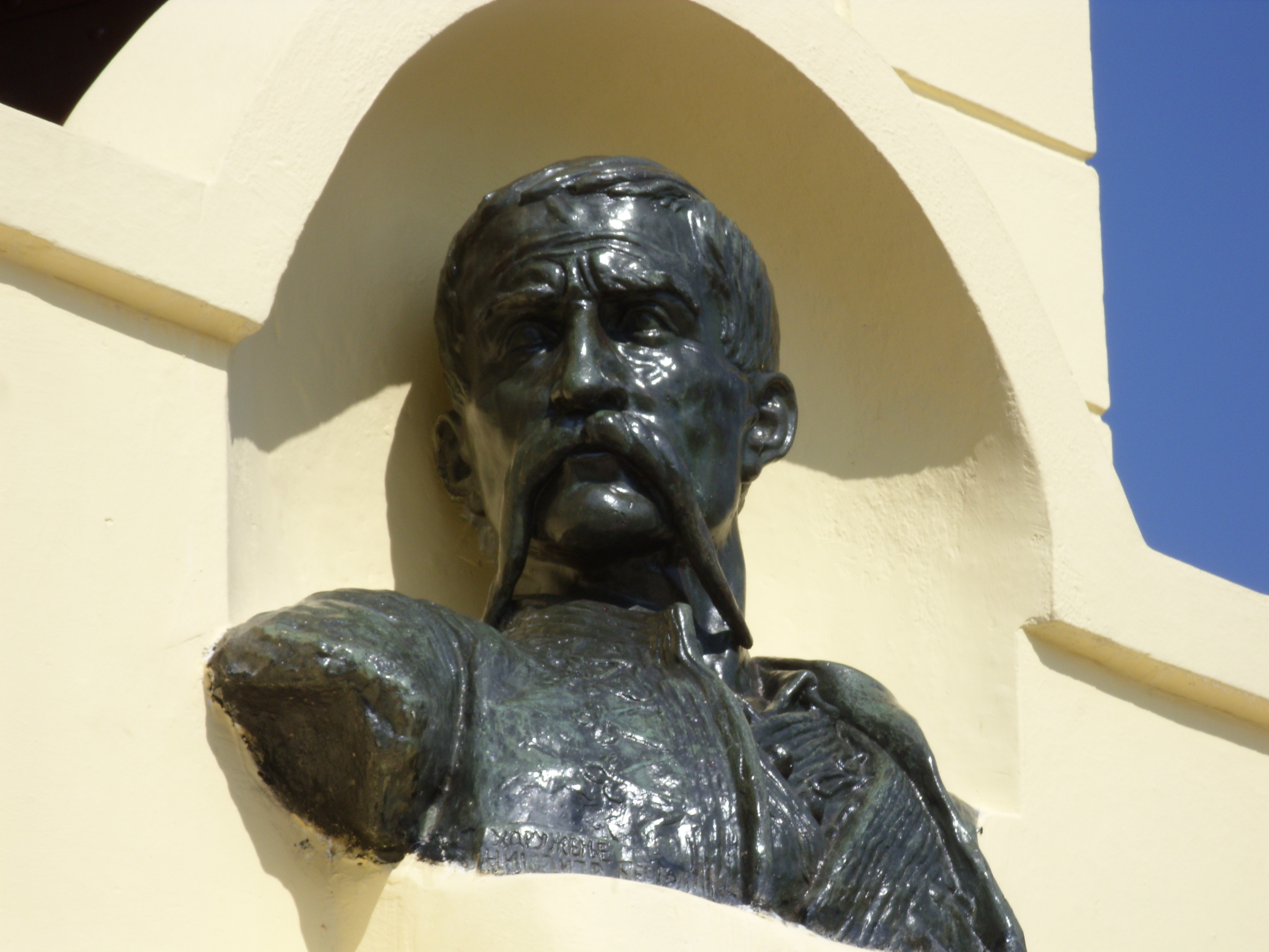 Stevan Sindjelic,Commander of the First Serbian Uprising againts Turks (1804), Serbia